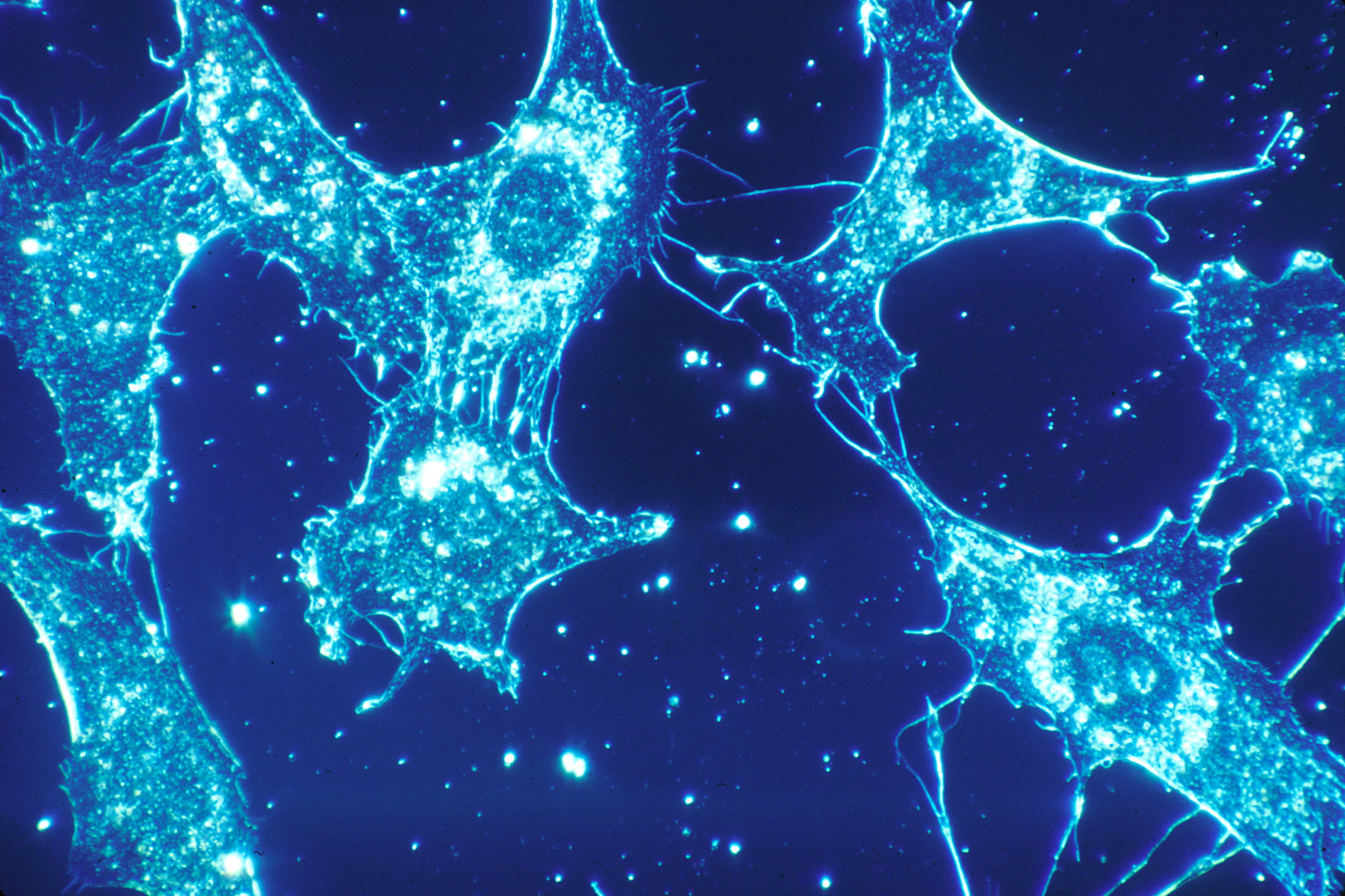 Title Normal Cells Description Normal cells of human connective tissue in culture. At a magnification of 500x, the cells were illuminated by darkfield amplified contrast technique. This image compares to the cancerous cells on: Topics/Categories Cells or Tissue, Normal Cells or Tissue Type Color, Photo Source National Cancer Institute